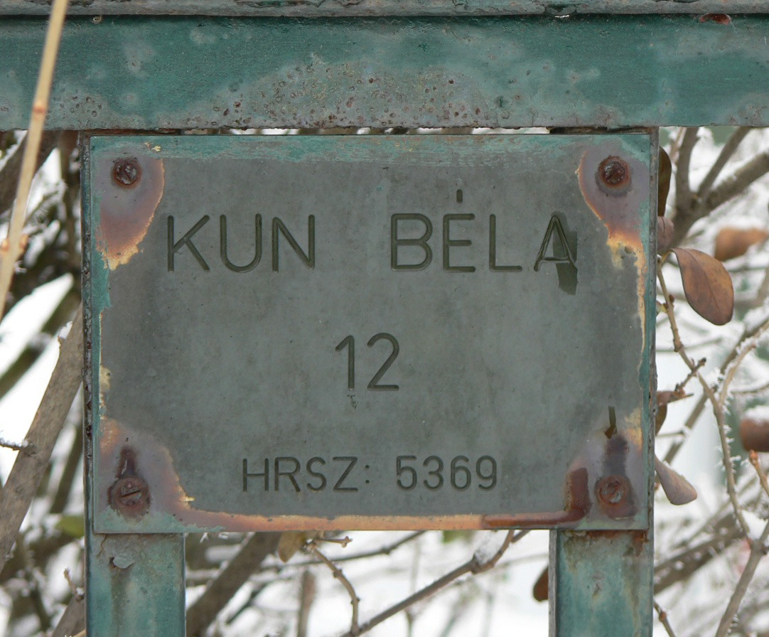 Egy Kun Béláról elnevezett utca névtáblája, amely túlélte az utcanév 1990-es megszüntetését